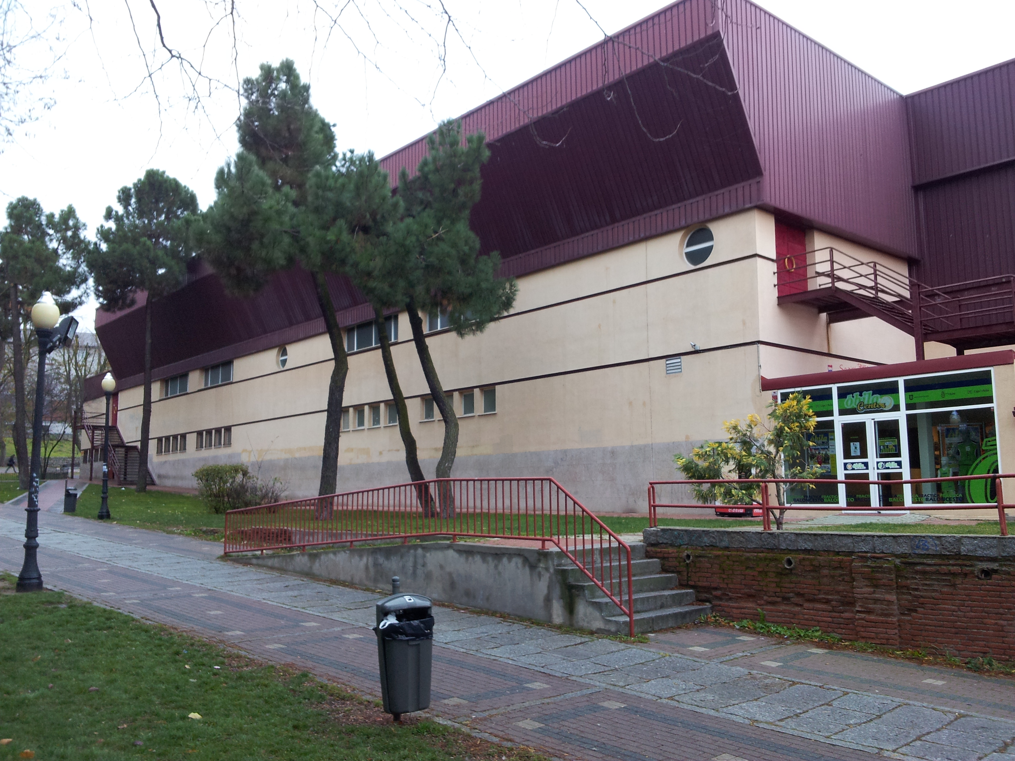 San Antonio's Sports Centre, Ávila (Ávila, Spain).